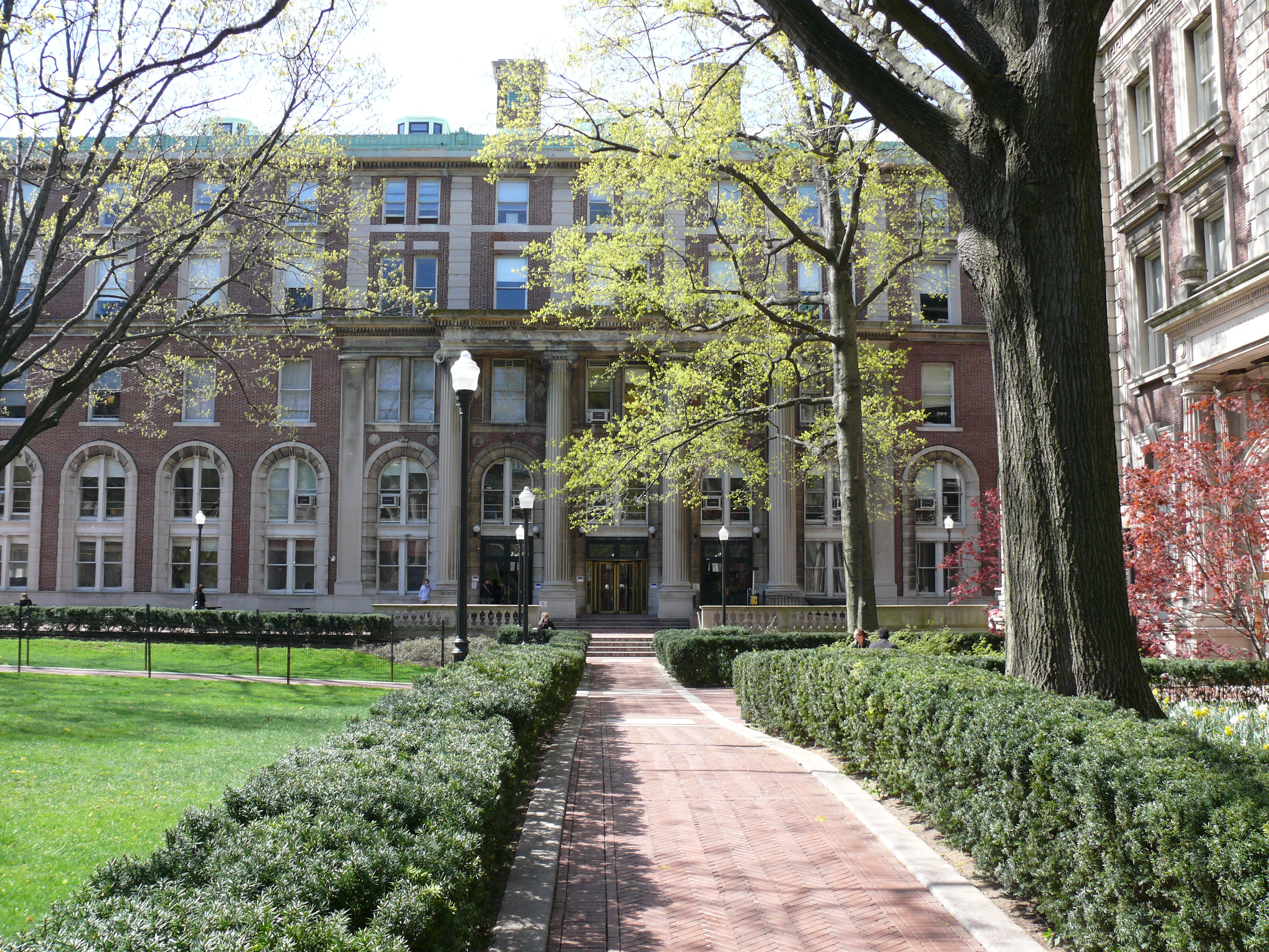 Columbia University College Walk Court Yard